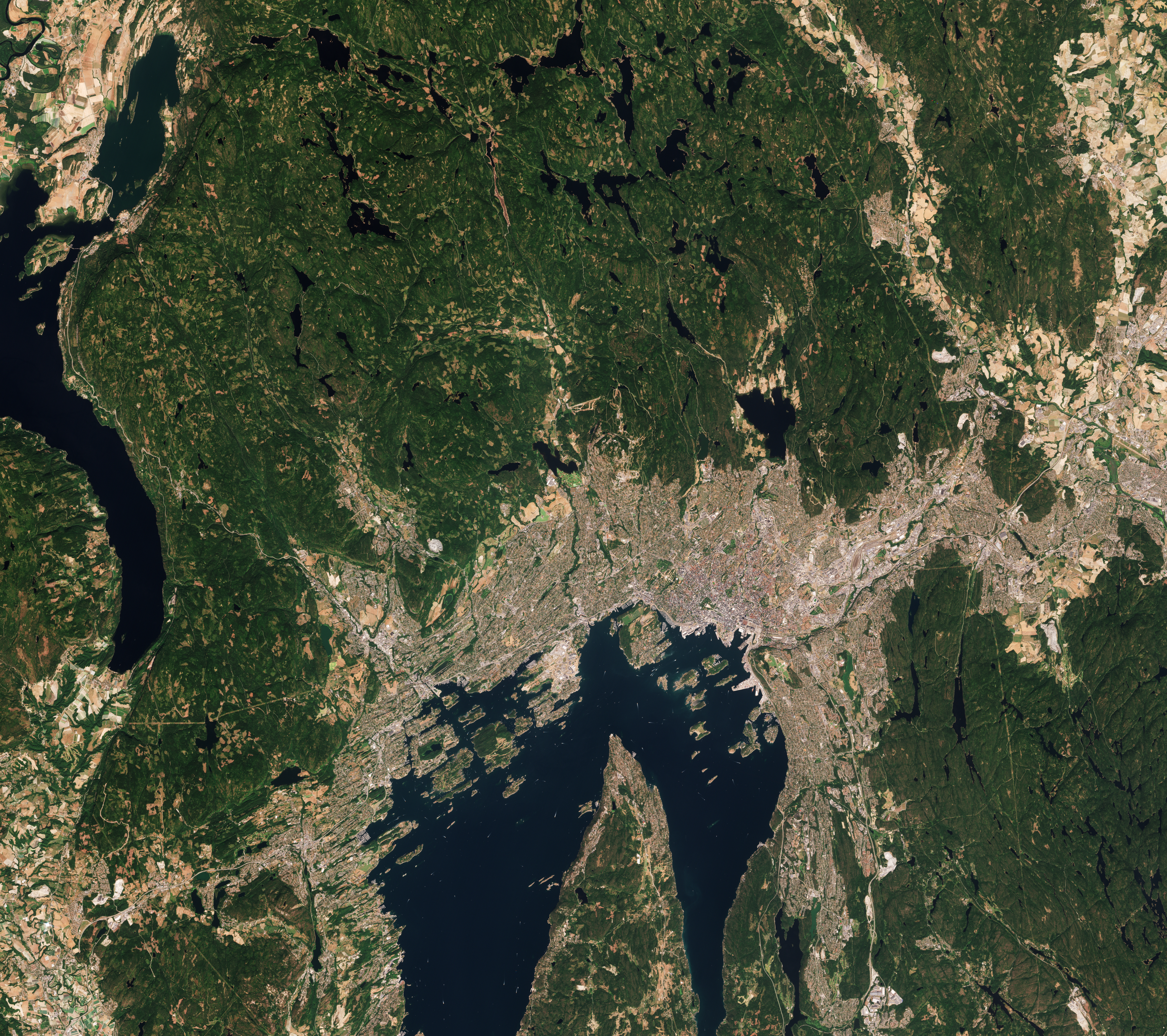 Date: 2018-07-27 Sensor: MSI on Sentinel-2A Resolution: 10m RGB Composites: True color, Band 4-3-2